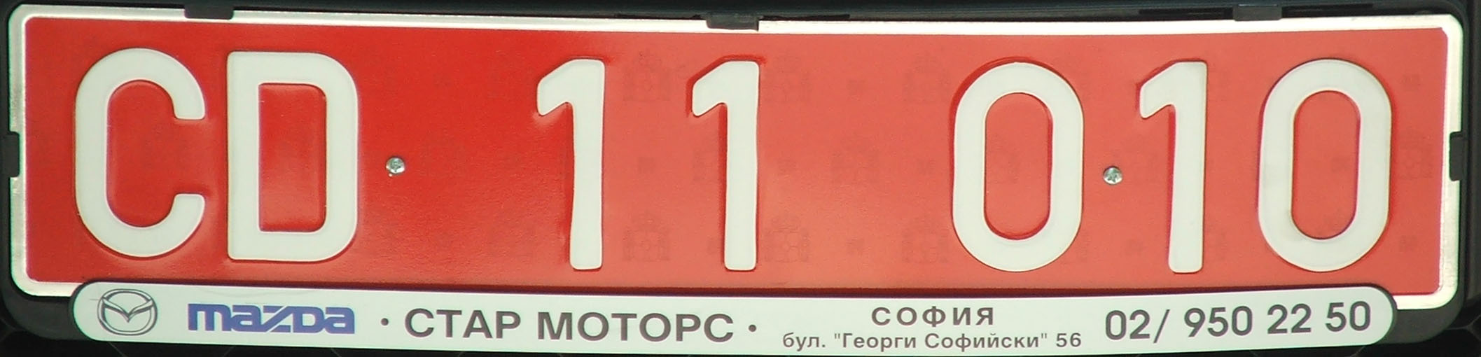 Diplomatic vehicle licence plate from Spain as seen in 2007.